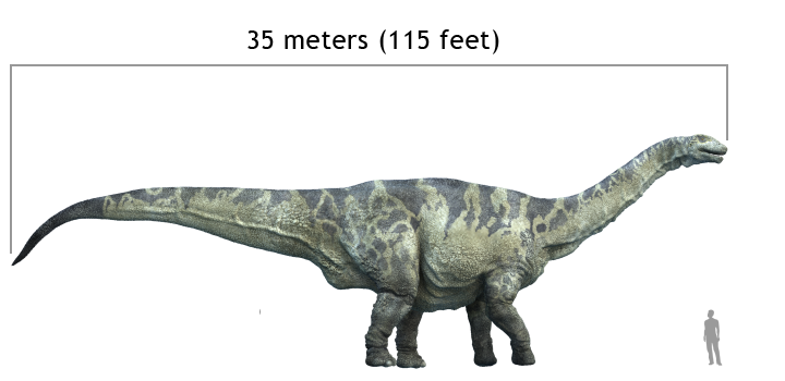 Argentinosaurus size compasison with man